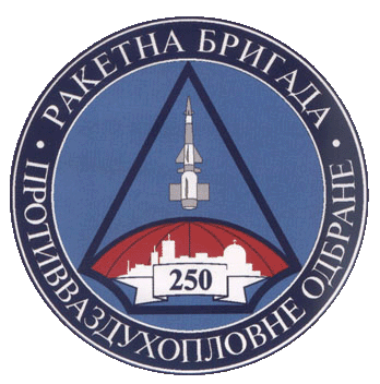 Logo of 250. air defence rocket brigade of FRY Air Force and Air Defense.